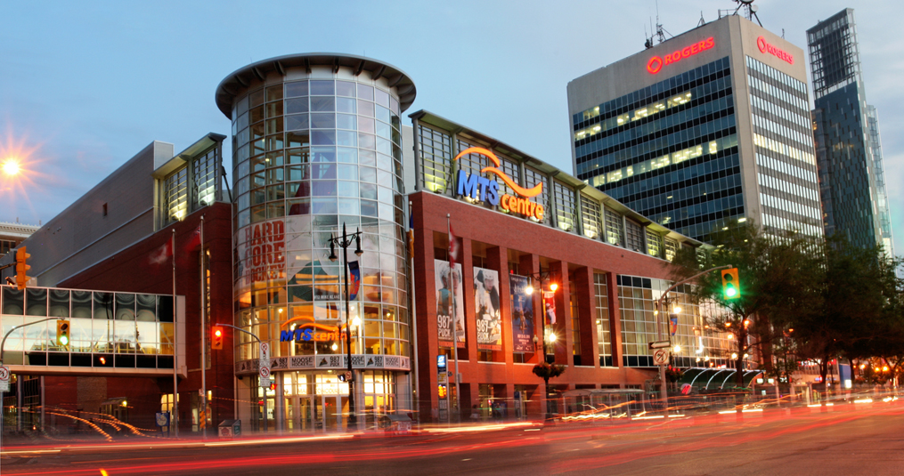 MTS Centre